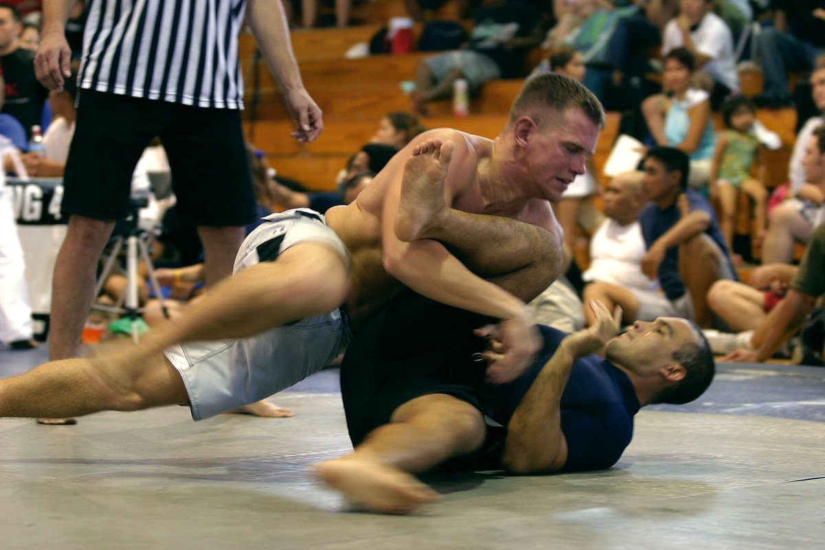 Steven Byrnes, Marine Corps Martial Arts instructor trainer, at K-Bay's Regimental Schools quickly lunges into a dominant position by moving into the side mount on his opponent during the Hawaiian State Grappling Championships.